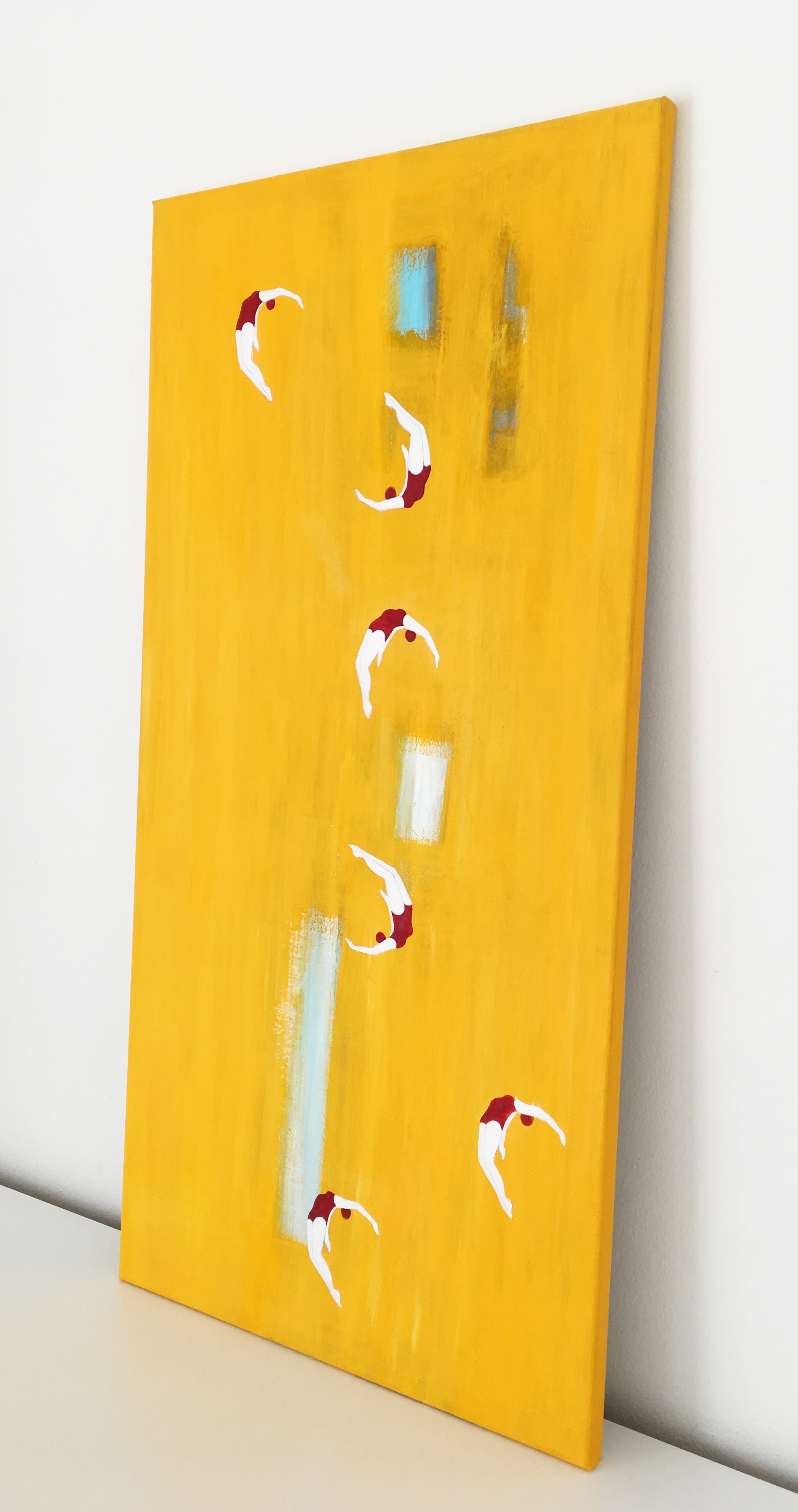 Original work by Roberta Pinna Owner/collector : Sergio Marchionne